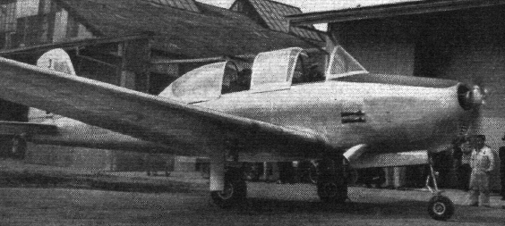 Kawasaki KAT-1